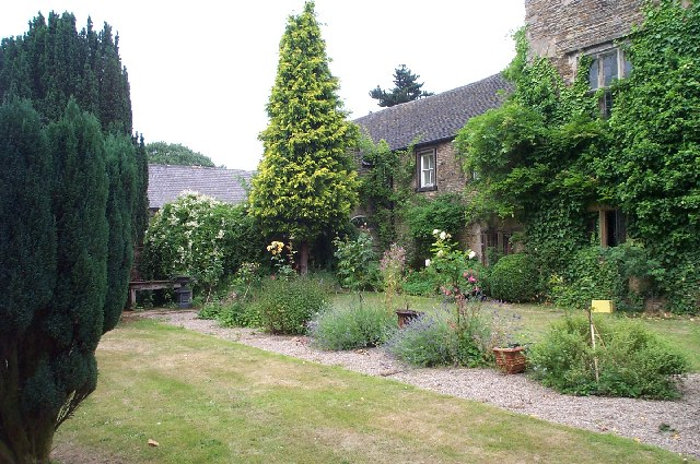 Carnfield Hall. Carnfield Hall was built in the 15th century and added to during the 16th and 17th centuries.